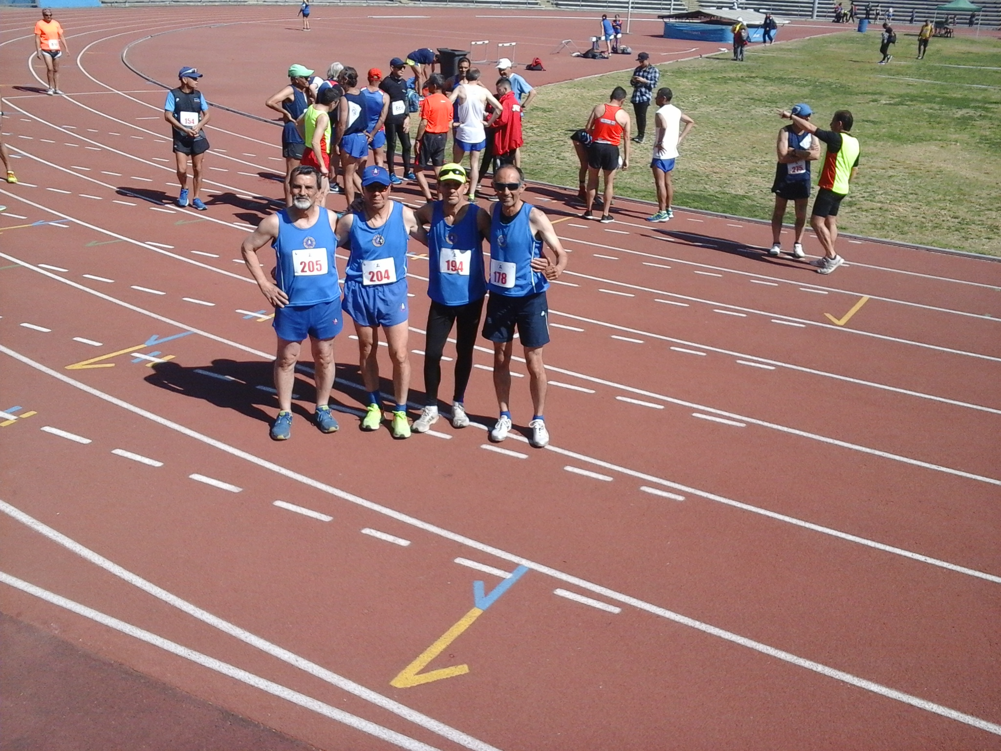 the masters runners club atletico universitarios azules